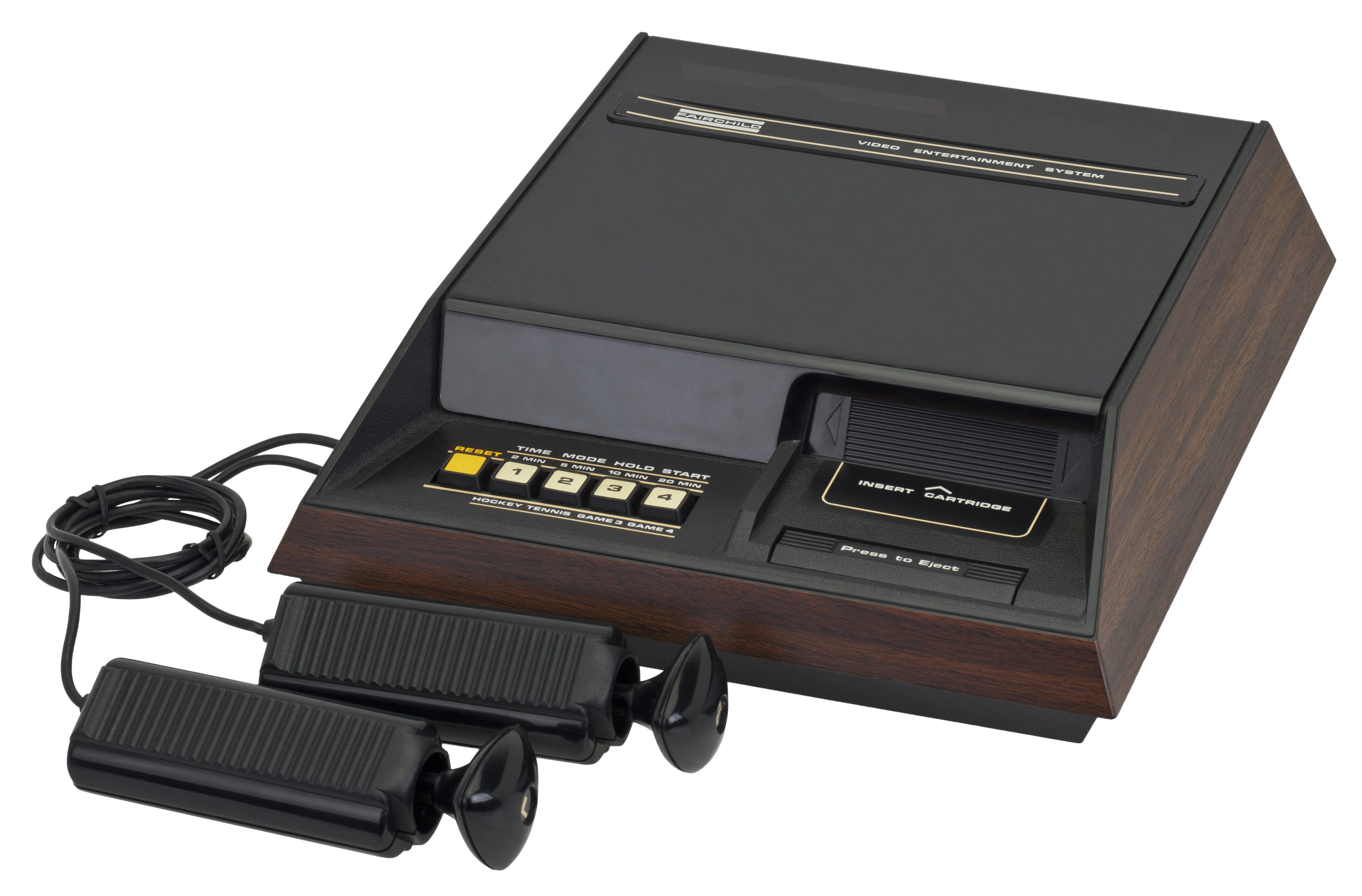 The Fairchild Channel F with hard-wired controllers. A second-generation video game console released in 1976.